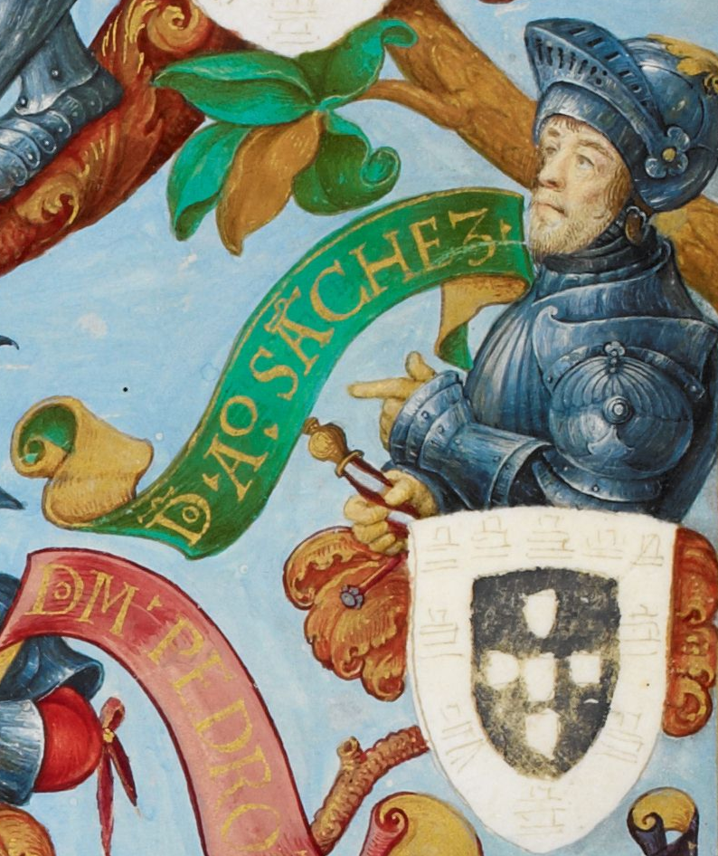 Alfonso Sanchez, Lord of Albuquerque (1289-1329), son of King Denis I of Portugal.